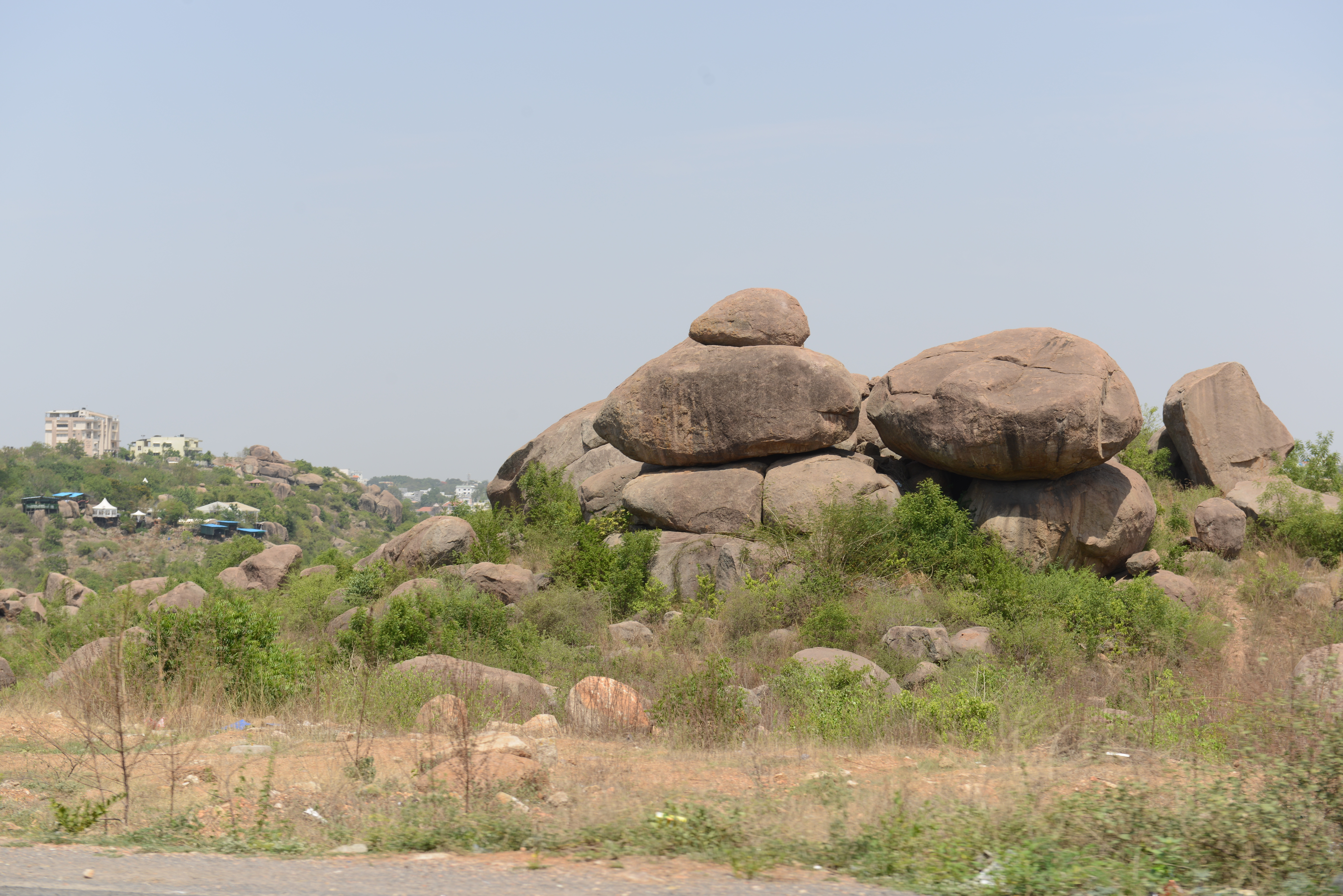 Photos of Rock formations in Hyderabad, India.